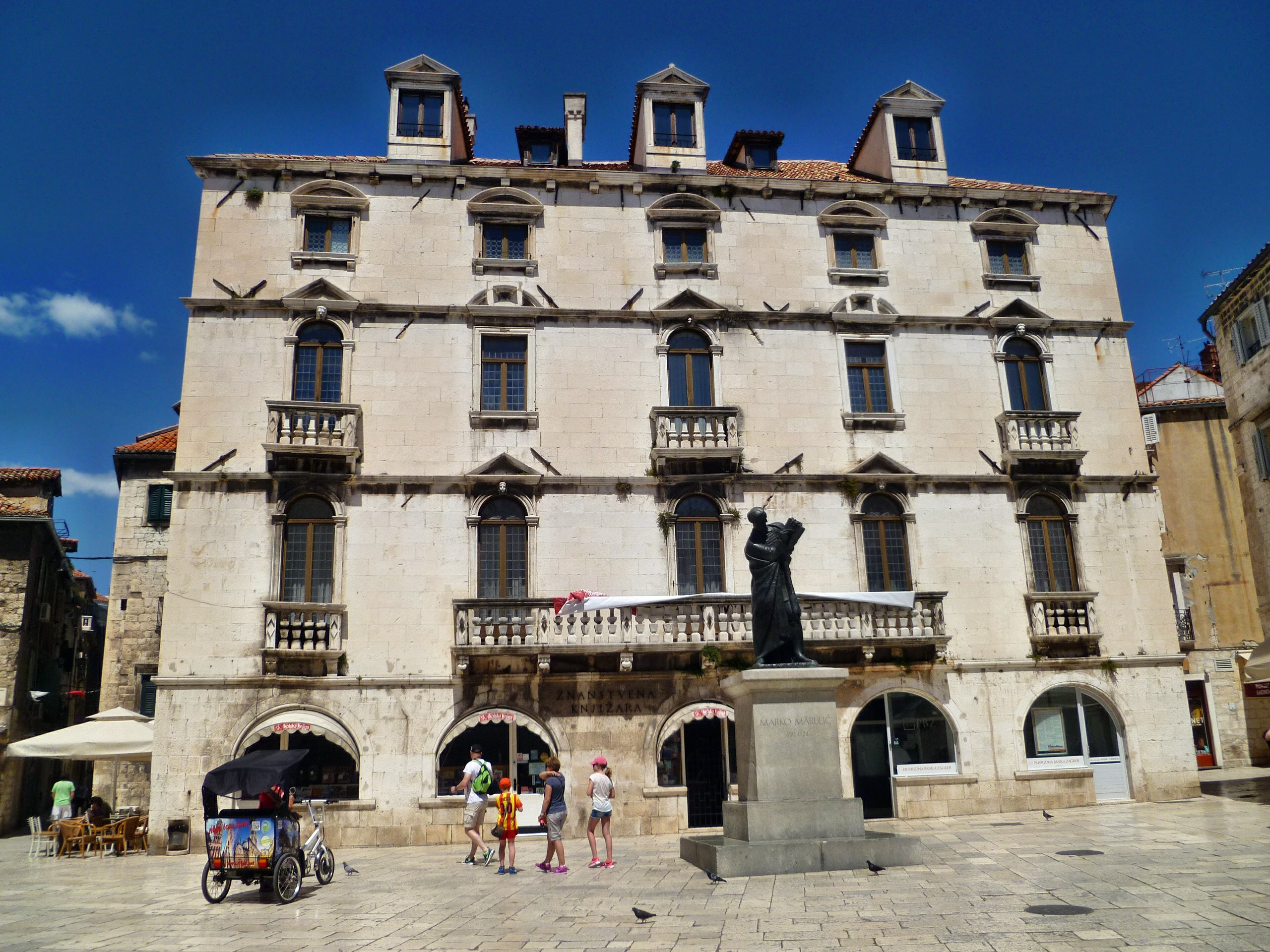 The Milesi Palace in Split, Croatia; mansion in Baroque style now housing the Split section of the Croatian Academy of Sciences and Arts